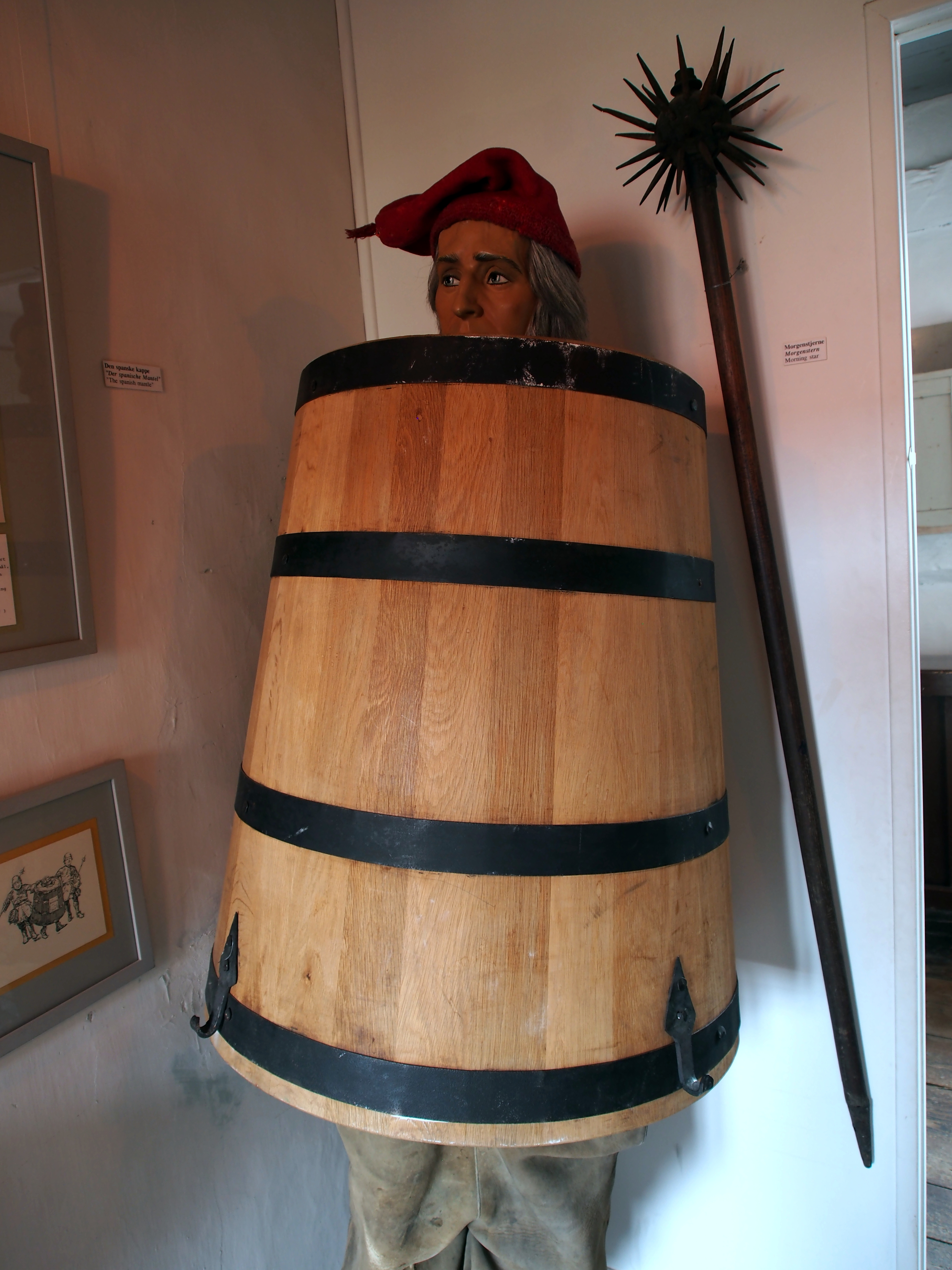 Photographed in the Farvergården Museum in Kerteminde.